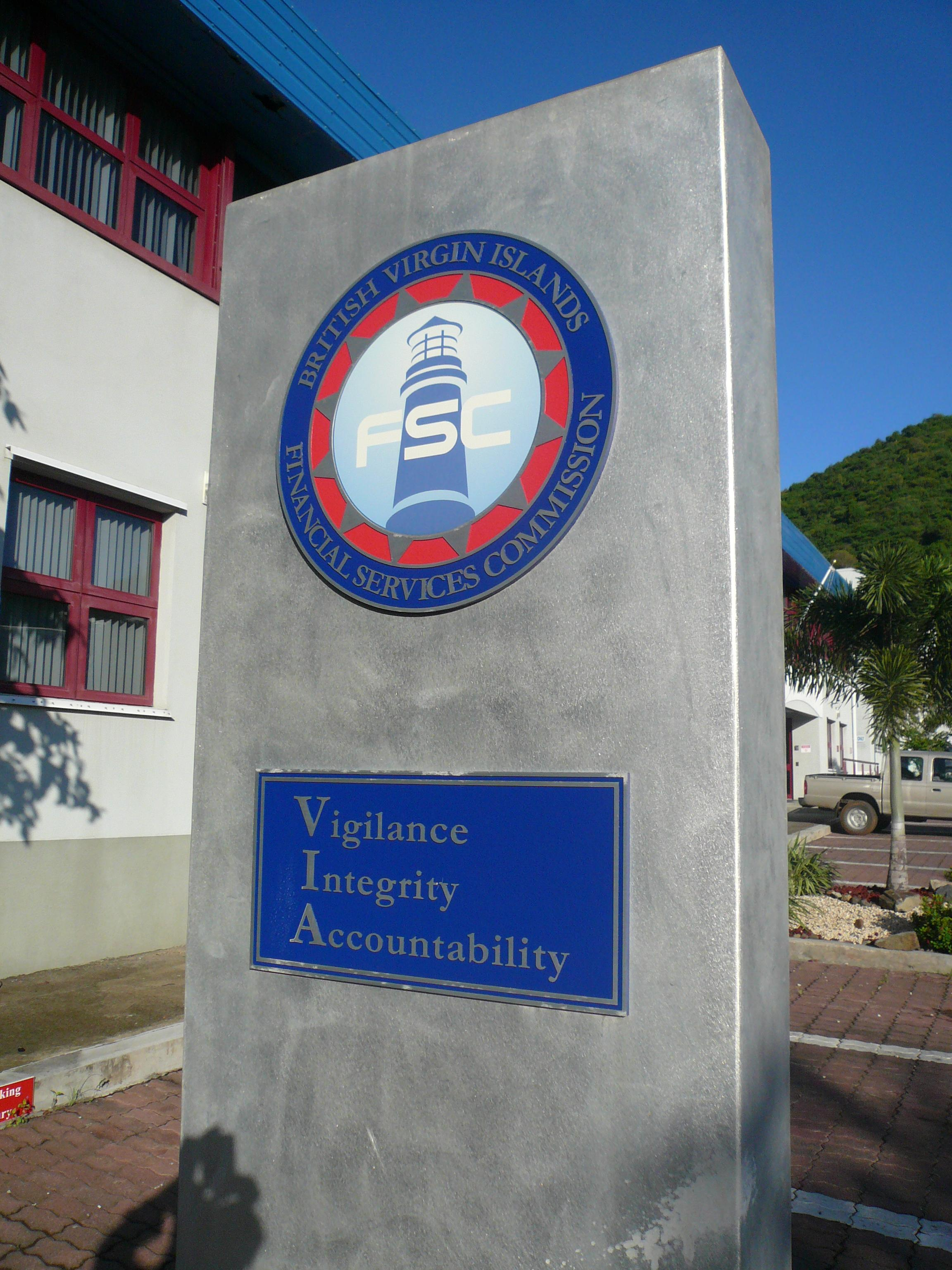 Photograph of the British Virgin Islands Financial Services Commission